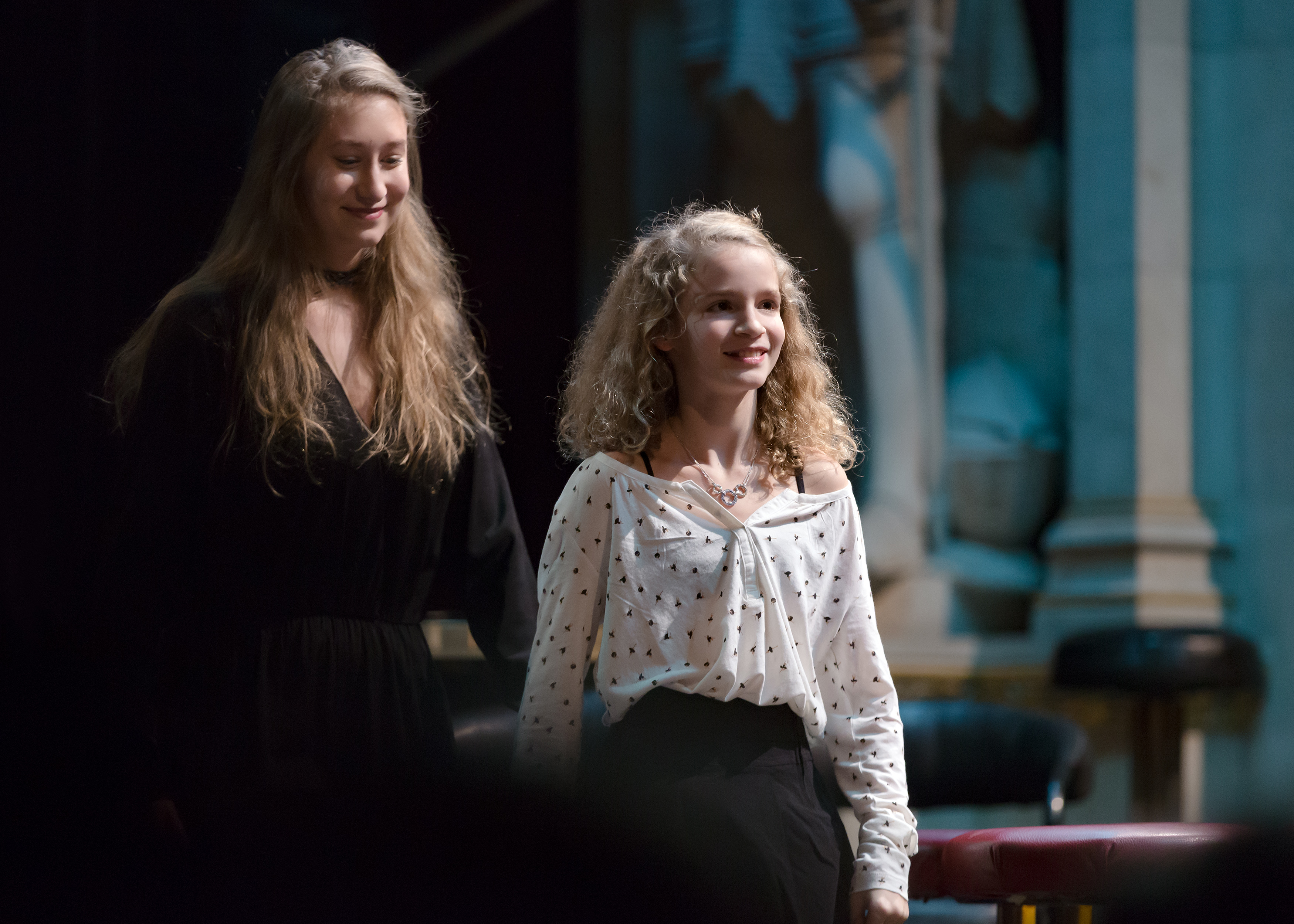 Actresses Zita Gaier (r.) and Paula Brunner of Maikäfer flieg at the Austrian Film Awards 2017; Rathaus, Vienna, Austria.